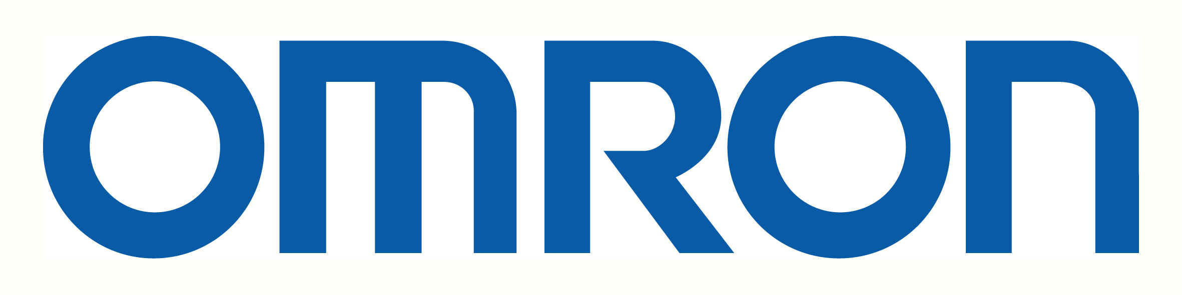 OmronLogo